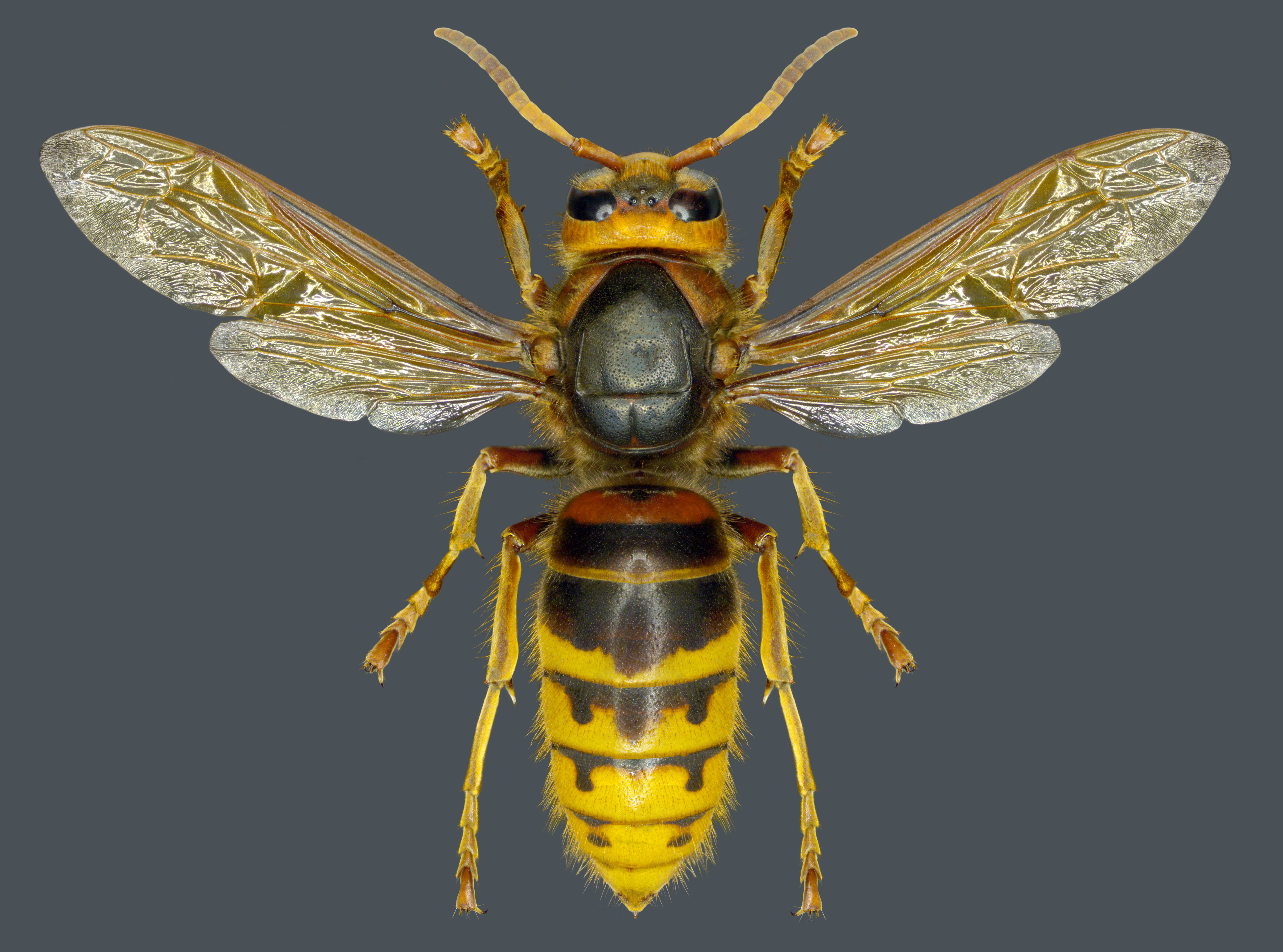 European hornet (Vespa crabro Linnaeus, 1758) (Hymenoptera, Vespidae). Queen.